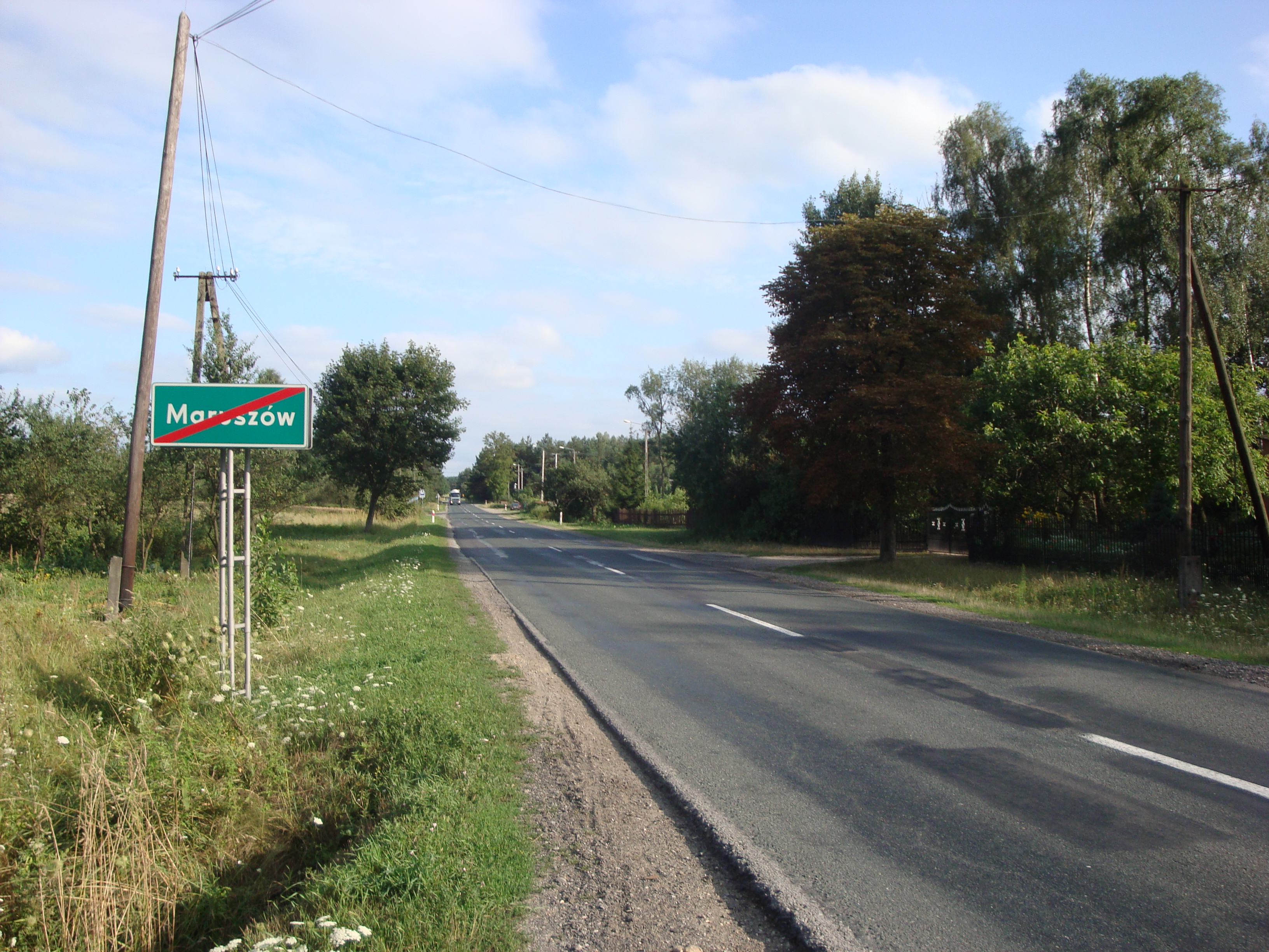 Maruszow